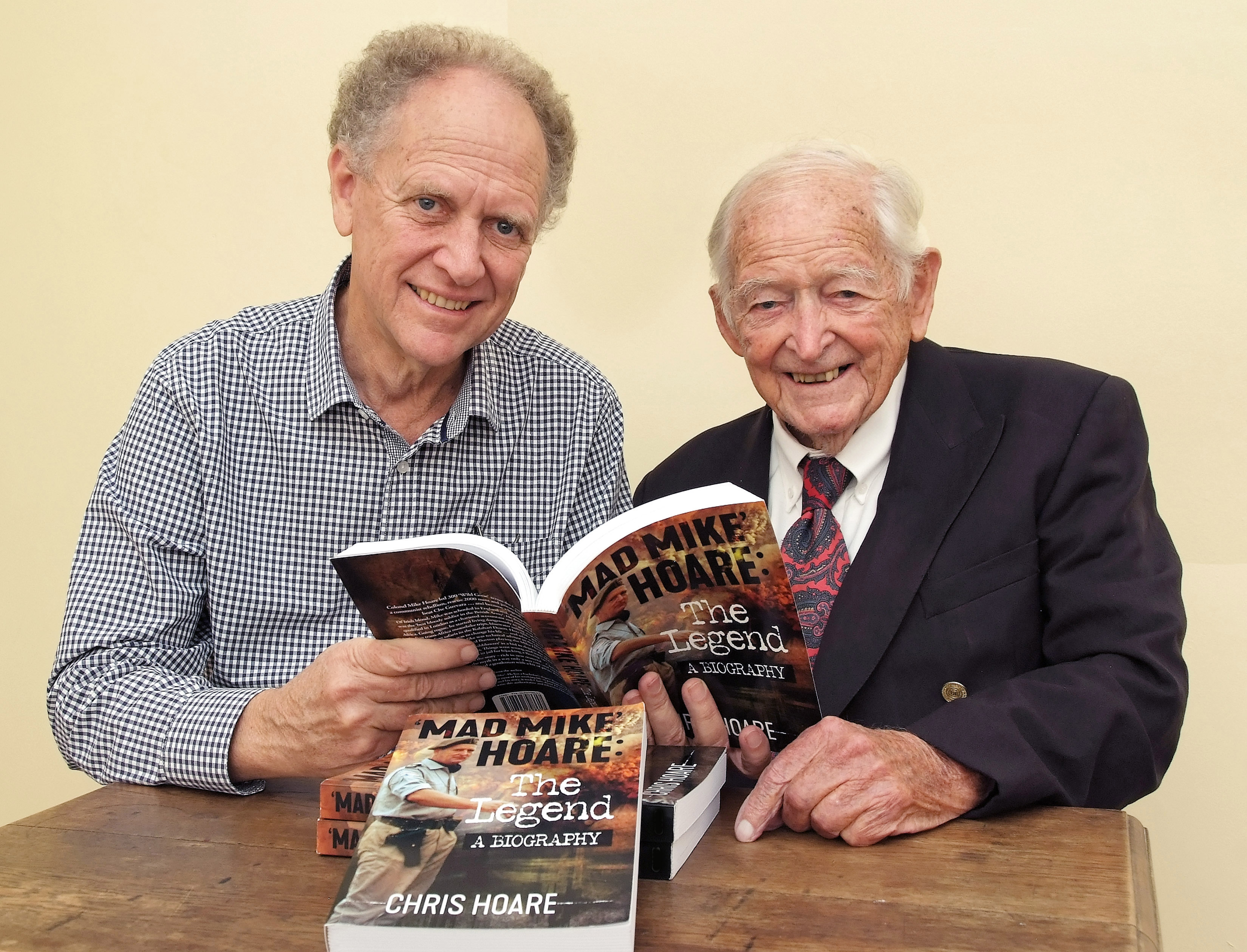 Chris Hoare, left, with his father Mike Hoare and the biography he wrote on Mike Hoare. Durban, June 2018. Photo by Roy Reed